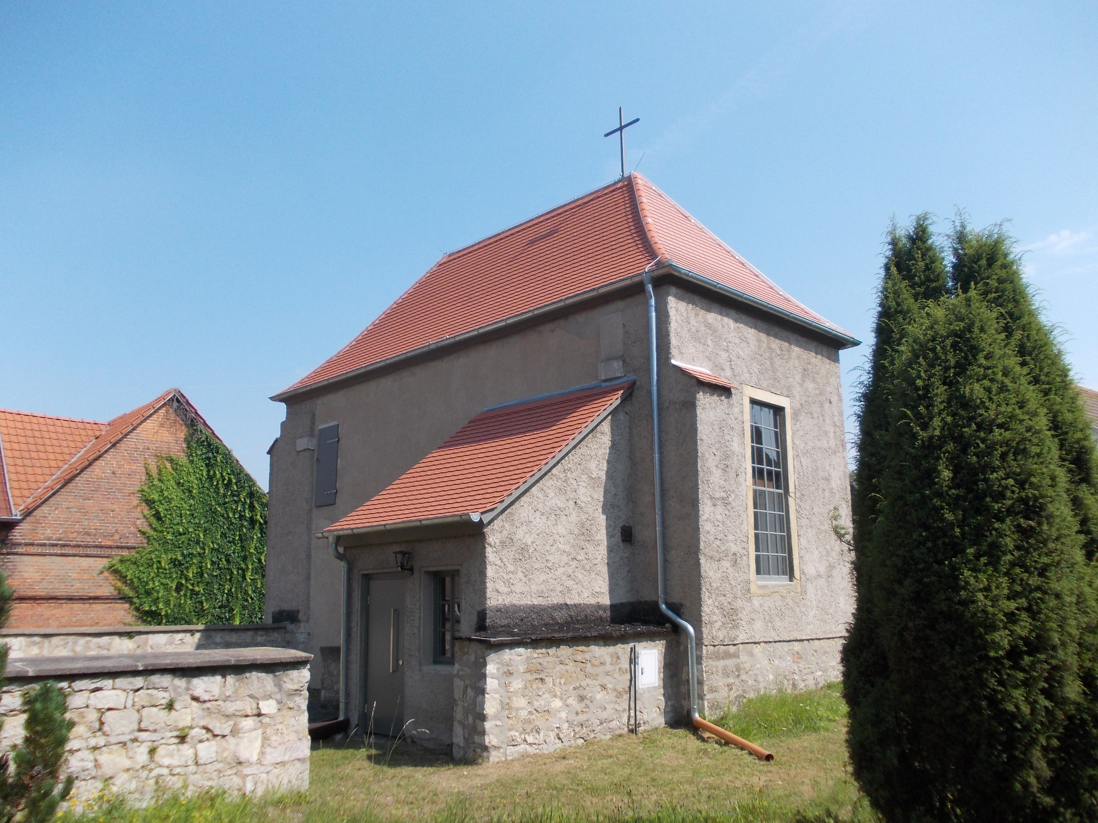 Kleinheringen Protestant church (Naumburg, district: Burgenlandkreis, Saxony-Anhalt)